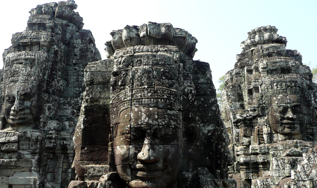 Faces of Bayon, Angkor, Cambodia